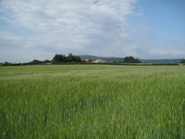 Farmland and Hope Hall Farm Hope Mountain is in the background. The photo was taken from the footpath.